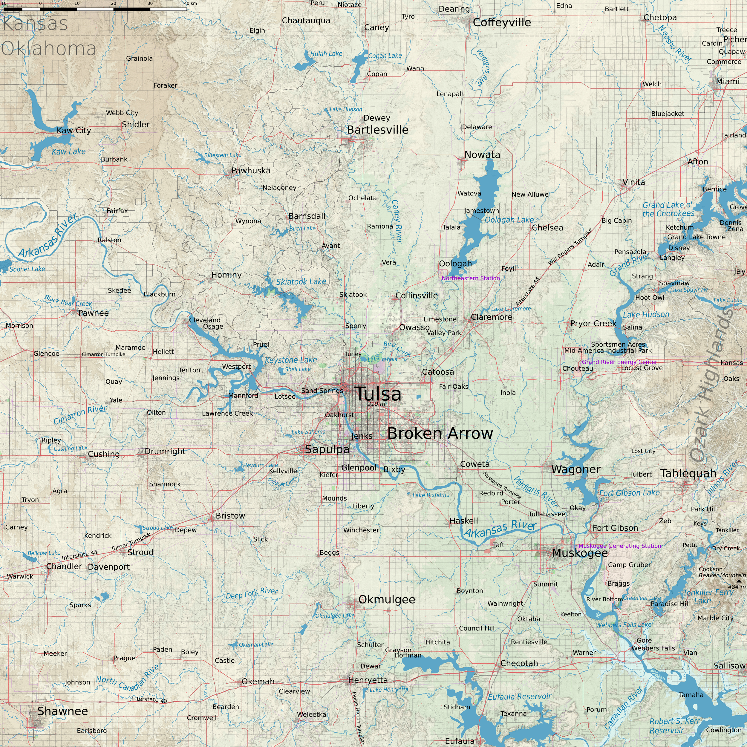 Map of Tulsa, Oklahoma. Scale: 1 pixel equals 80.8 m at the latitude of Tulsa (36.15° N). Projection: WGS 84 / Pseudo Mercator, EPSG: 3857. Extent (xmin, ymin, xmax, ymax): -10800950.551 4201170.125 -10551014.551 4451106.126. Legend: major road minor road state boundary water river/stream dam pipeline railway aeroway power historic park/pitch/sports centre/track/golf course swimming pool cemetery construction quarry commercial industrial military residential retail amenity 0 - 150 m 150 - 200 m 200 - 250 m 250 - 300 m 300 - 350 m 350 - 400 m 400 - 450 m 450 - 500 m